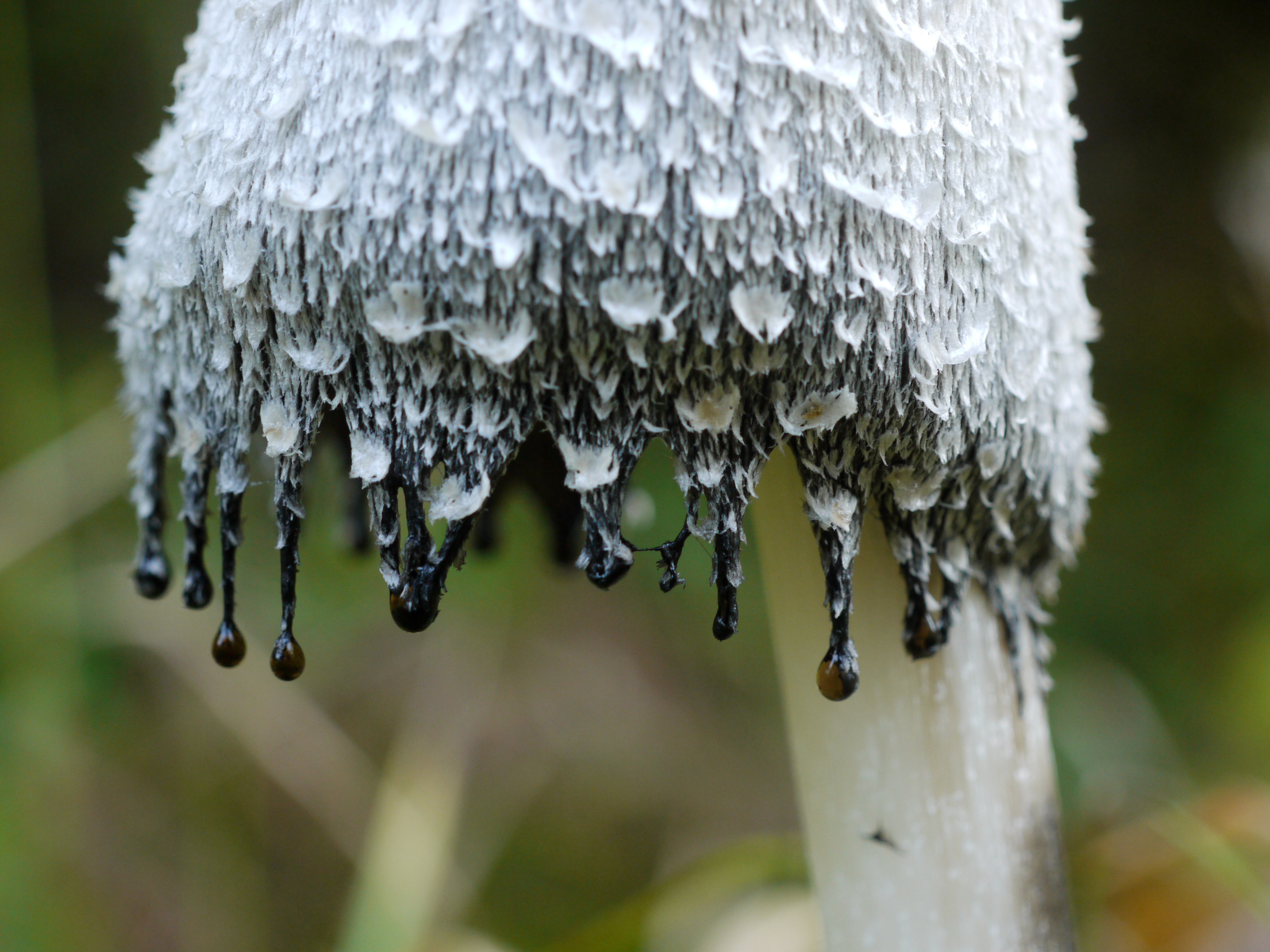 Coprinus comatus dripping - close up.